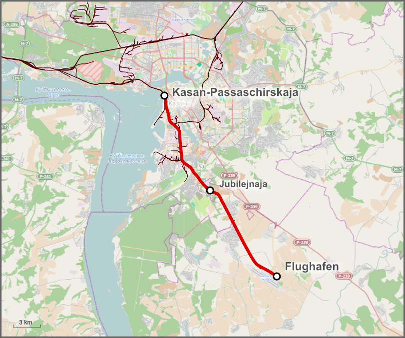 Aeroexpress trains routes in Kazan